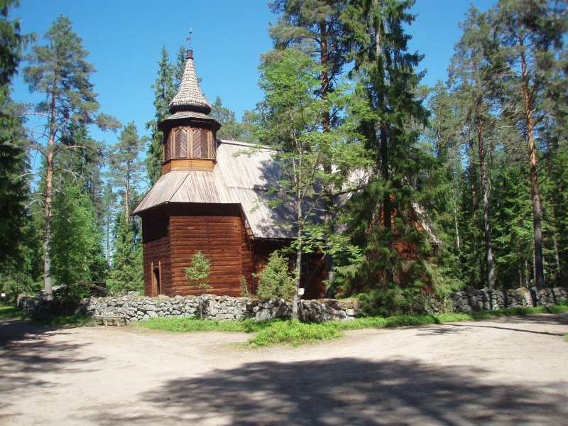 Photo of the old Church in Pihlajavesi, Keuruu, Finland